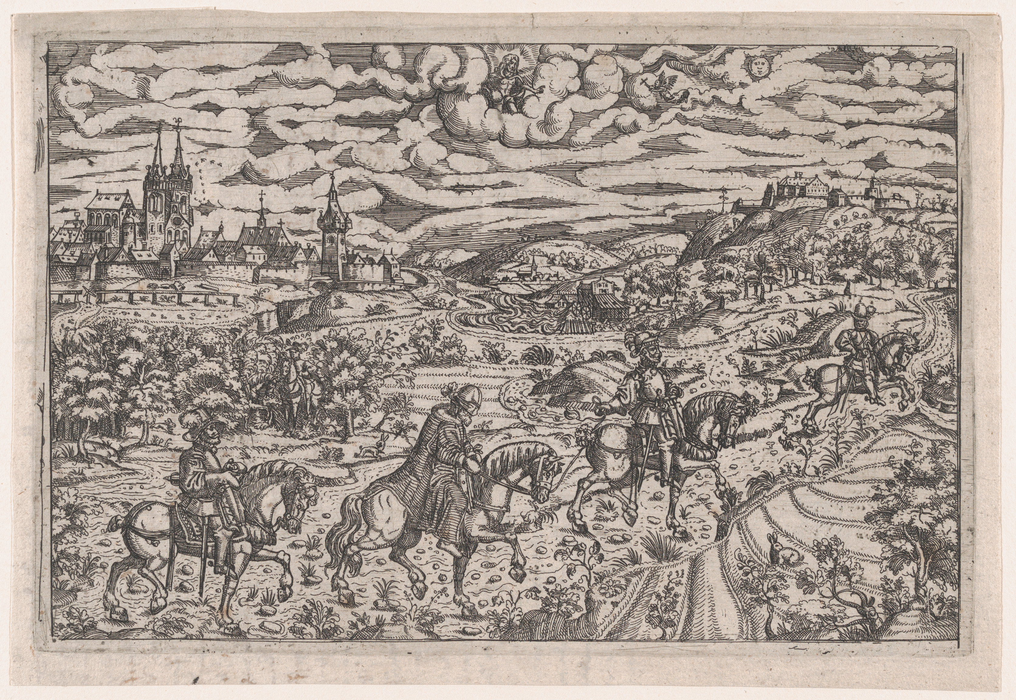 Prints